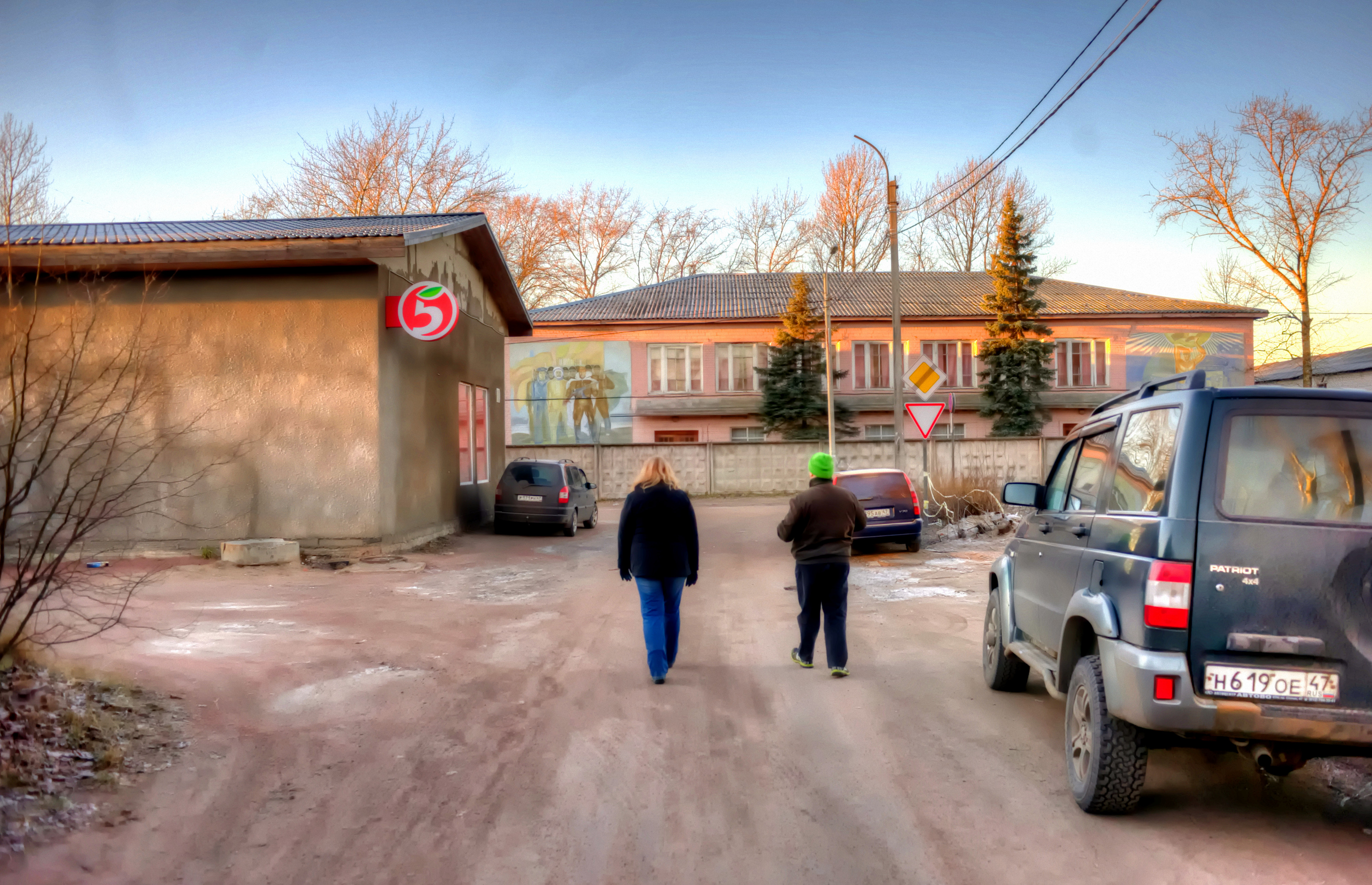 Uuras City 28.12.2015